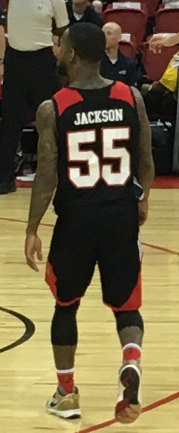 Pierre Jackson at 2016 NBA Summer League